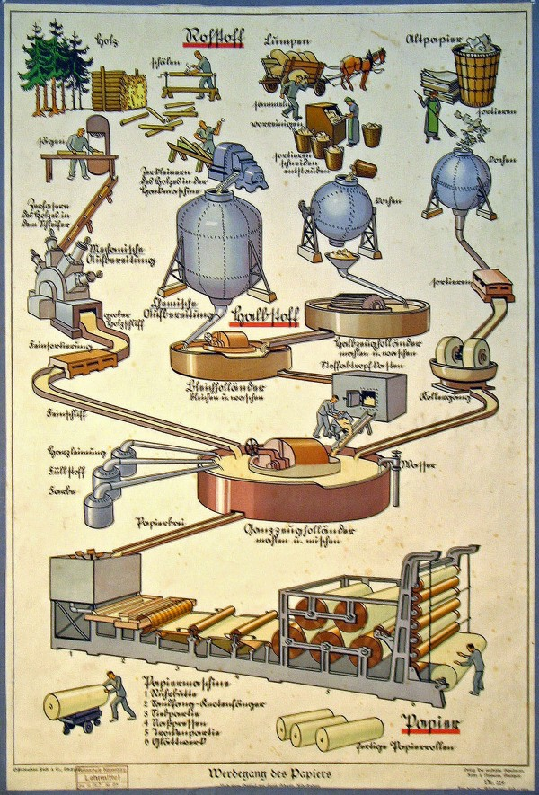 Historical poster titled Werdegang des Papiers (“background of paper”)